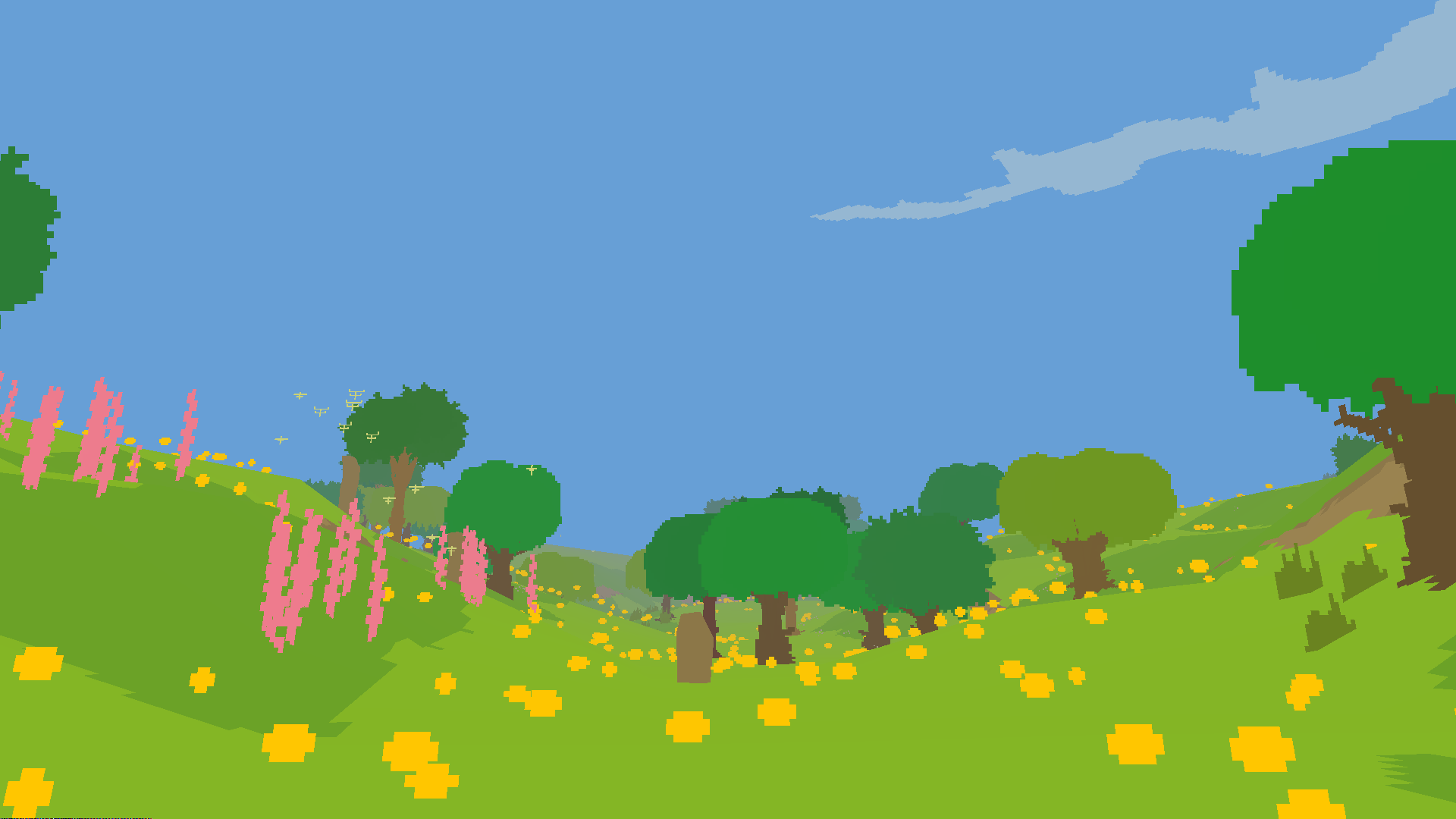 A meadow in video game Proteus